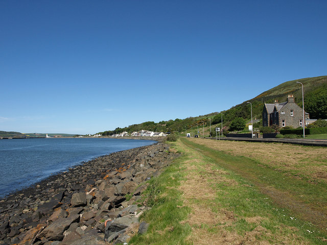 Shore, Cairnryan The grass track running alongside the A77 on the right is where the military railway originally ran. Shore defences are on the left.